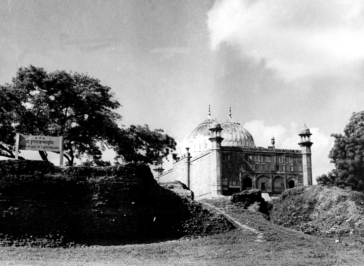 DPD/Aug.49, A04bThe site celebrated as the birth place of Lord Krishna. Shri Krishna, as tradition goes, was born in a prison and the prison is said to have existed on the plot marked by a stone plate. To the right of it is the idgah. Photo Number:-10806